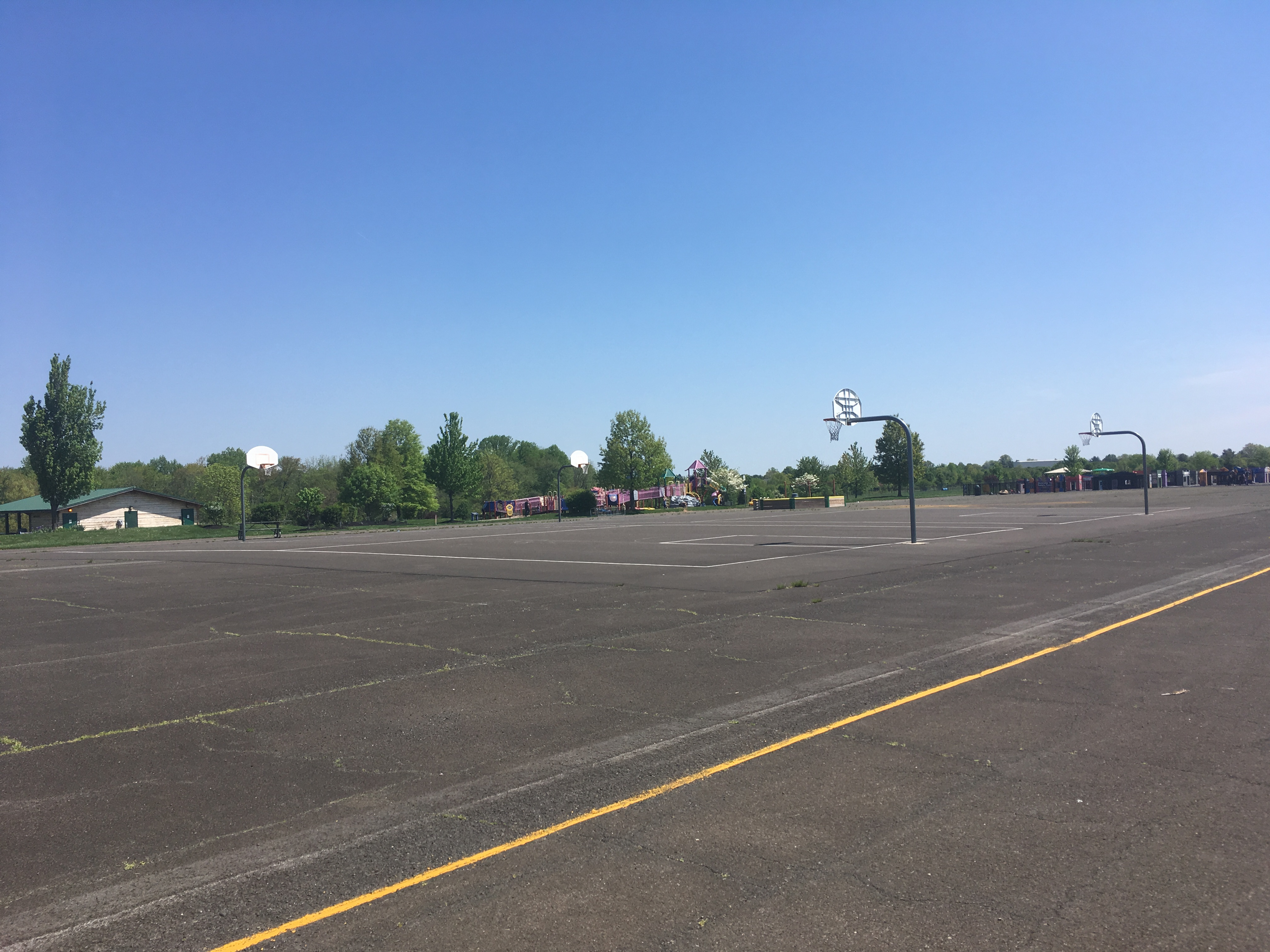 A view of the basketball courts and playground at the Warminster Community Park in Warminster Township, Pennsylvania. The basketball court is located on the former runway of Naval Air Warfare Center Warminster